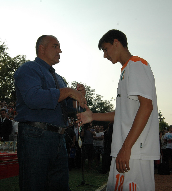 Iliya Milanov